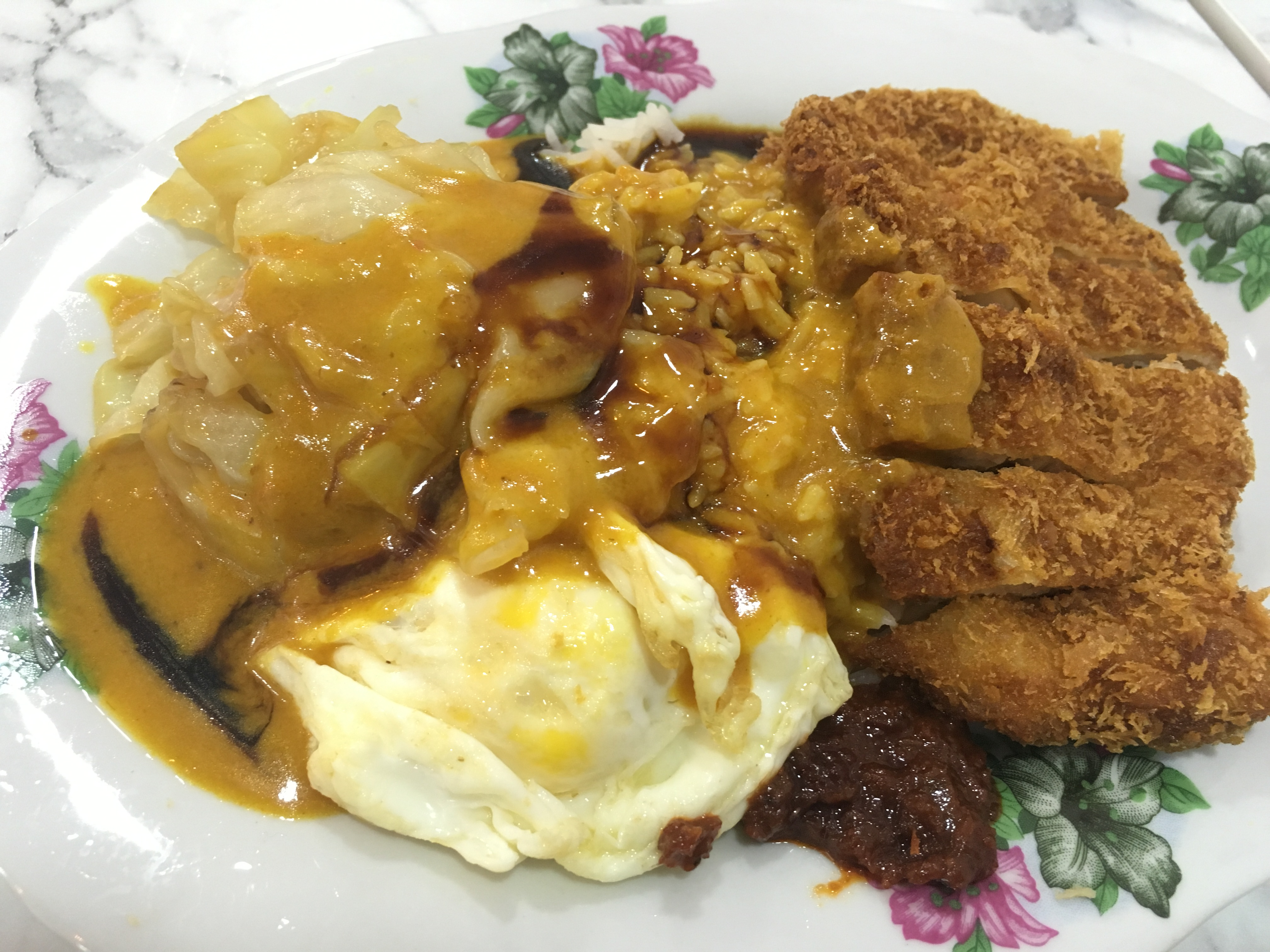 Hainanese curry rice, a Chinese Singaporean dish consisting of steamed white rice smothered in a mess of curries and gravy, accompanied by pork cutlet (deep fried battered pork), chap chye (braised cabbage) and fried egg.